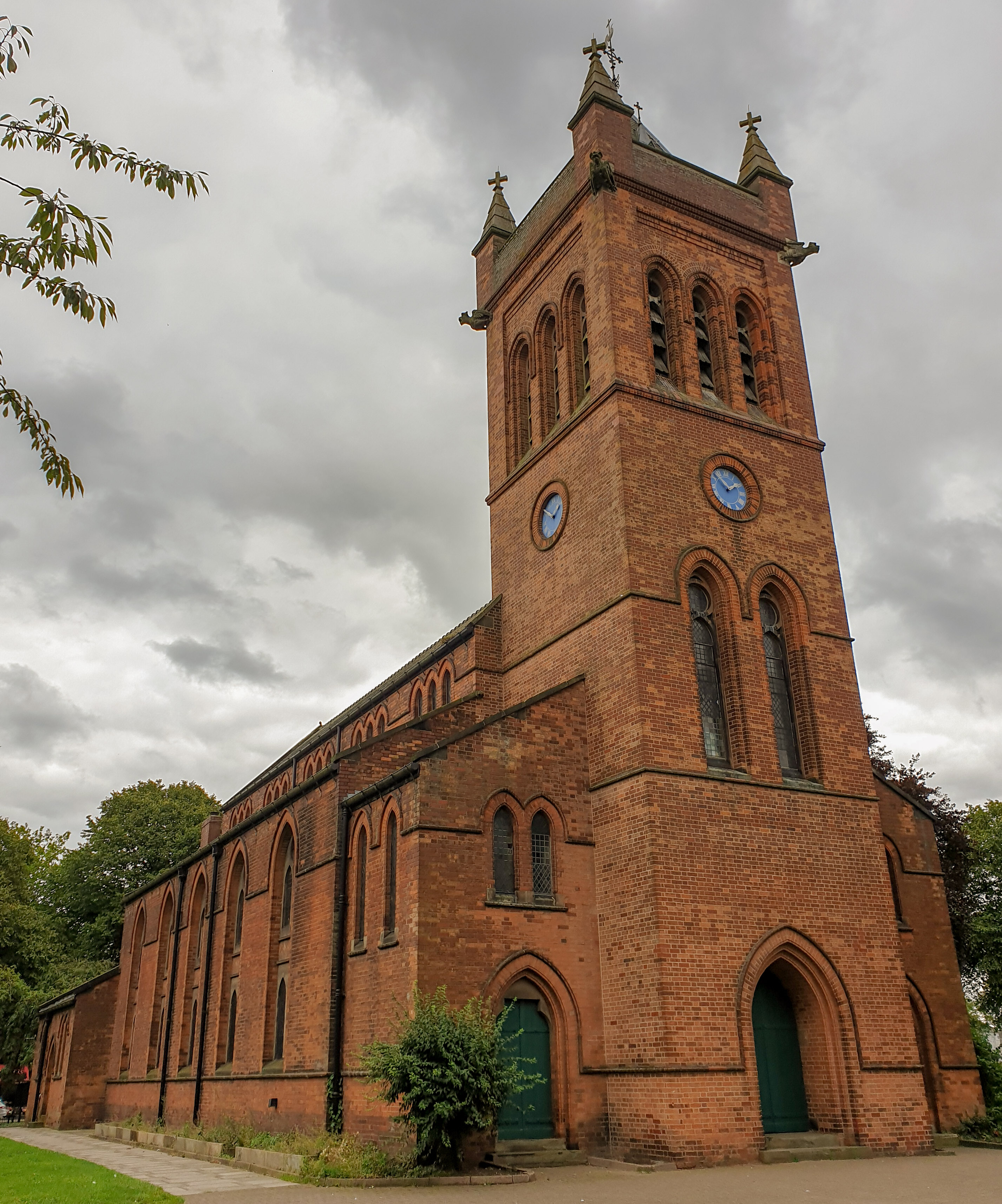 Church Of All Saints Wikidata has entry Q26341152 with data related to this item.